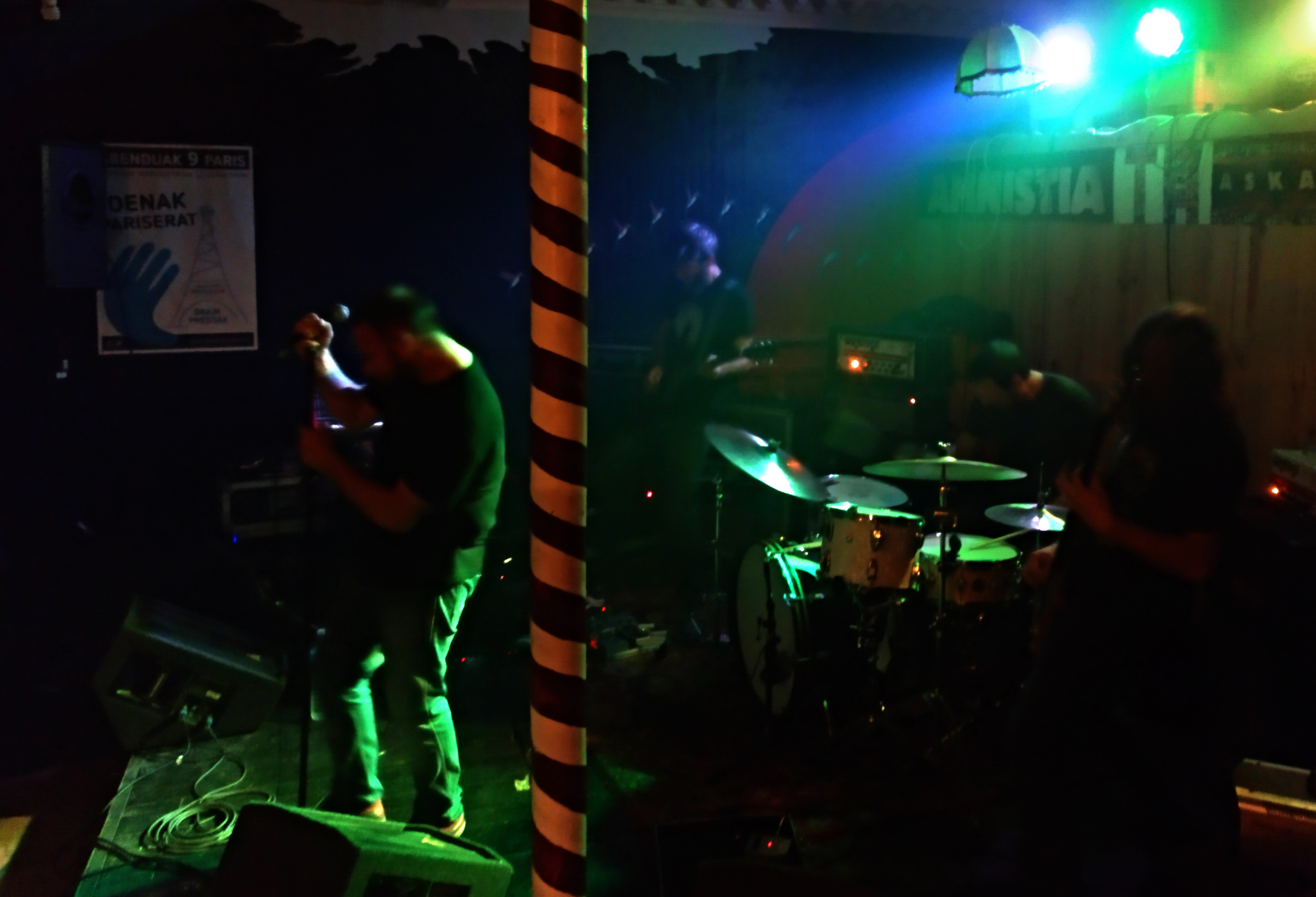 Sweven, musical group